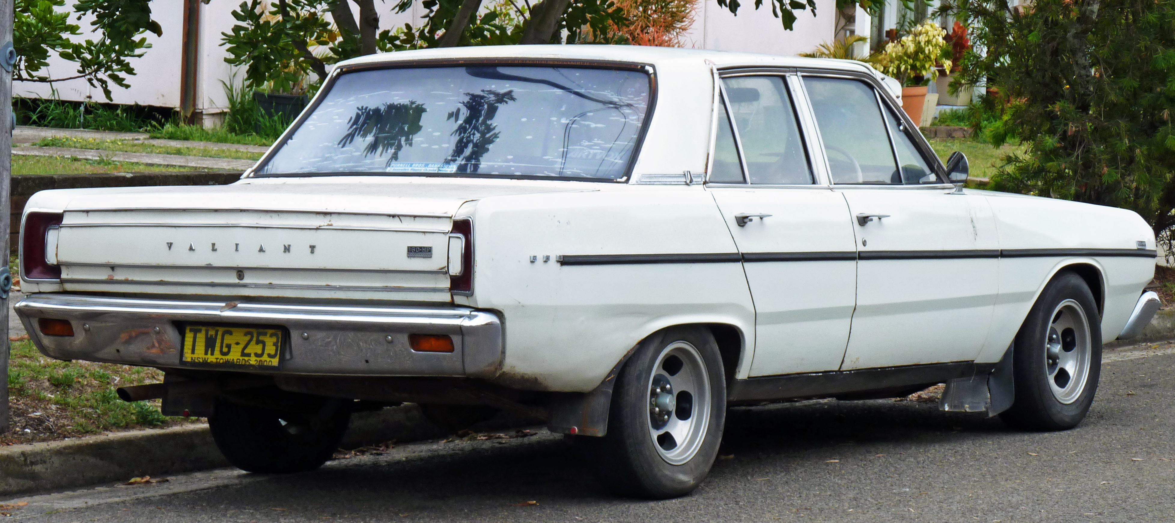 1968 Chrysler Valiant (VE) sedan. Photographed in Sandringham, New South Wales, Australia.